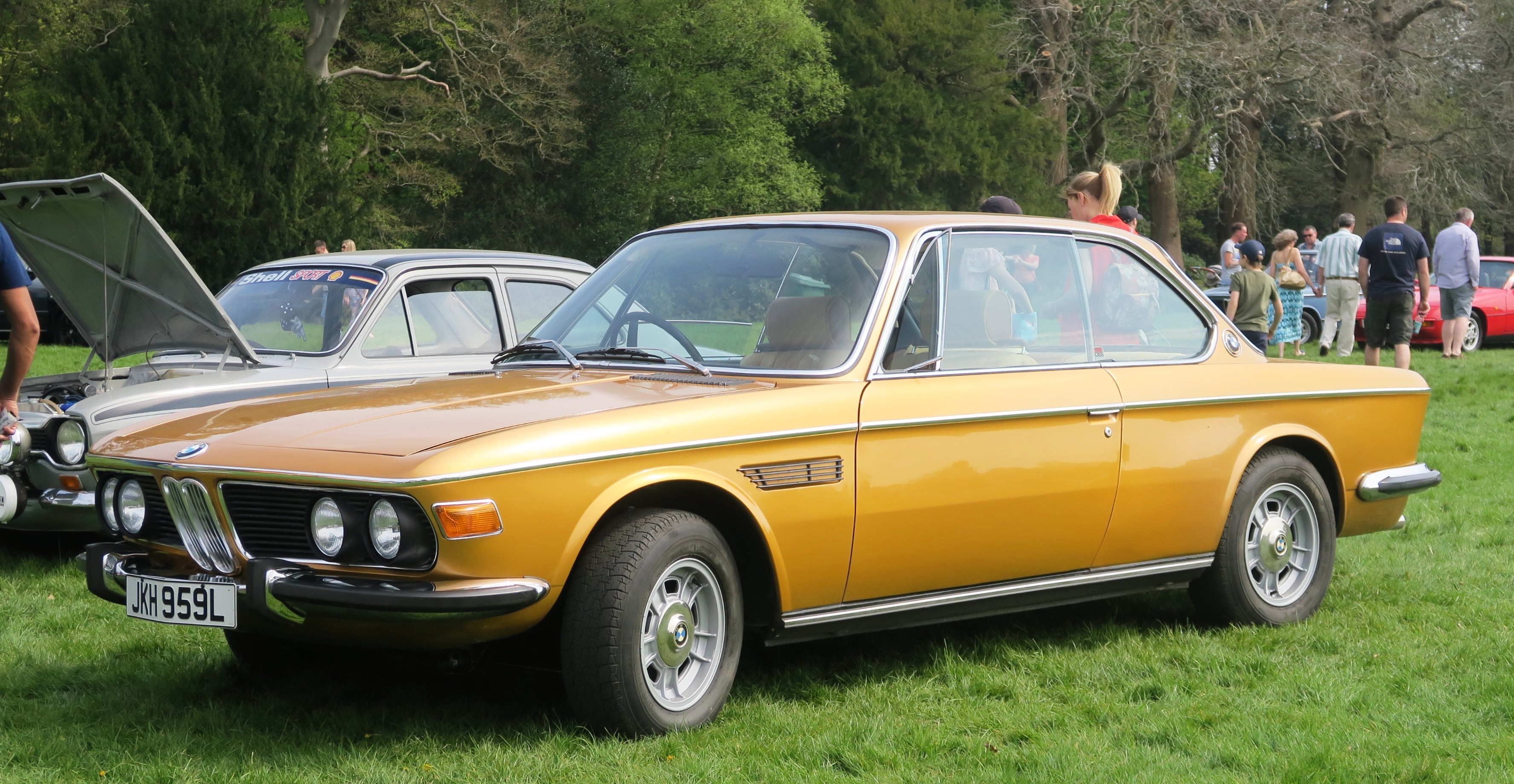 BMW 3.0 CS aka E9